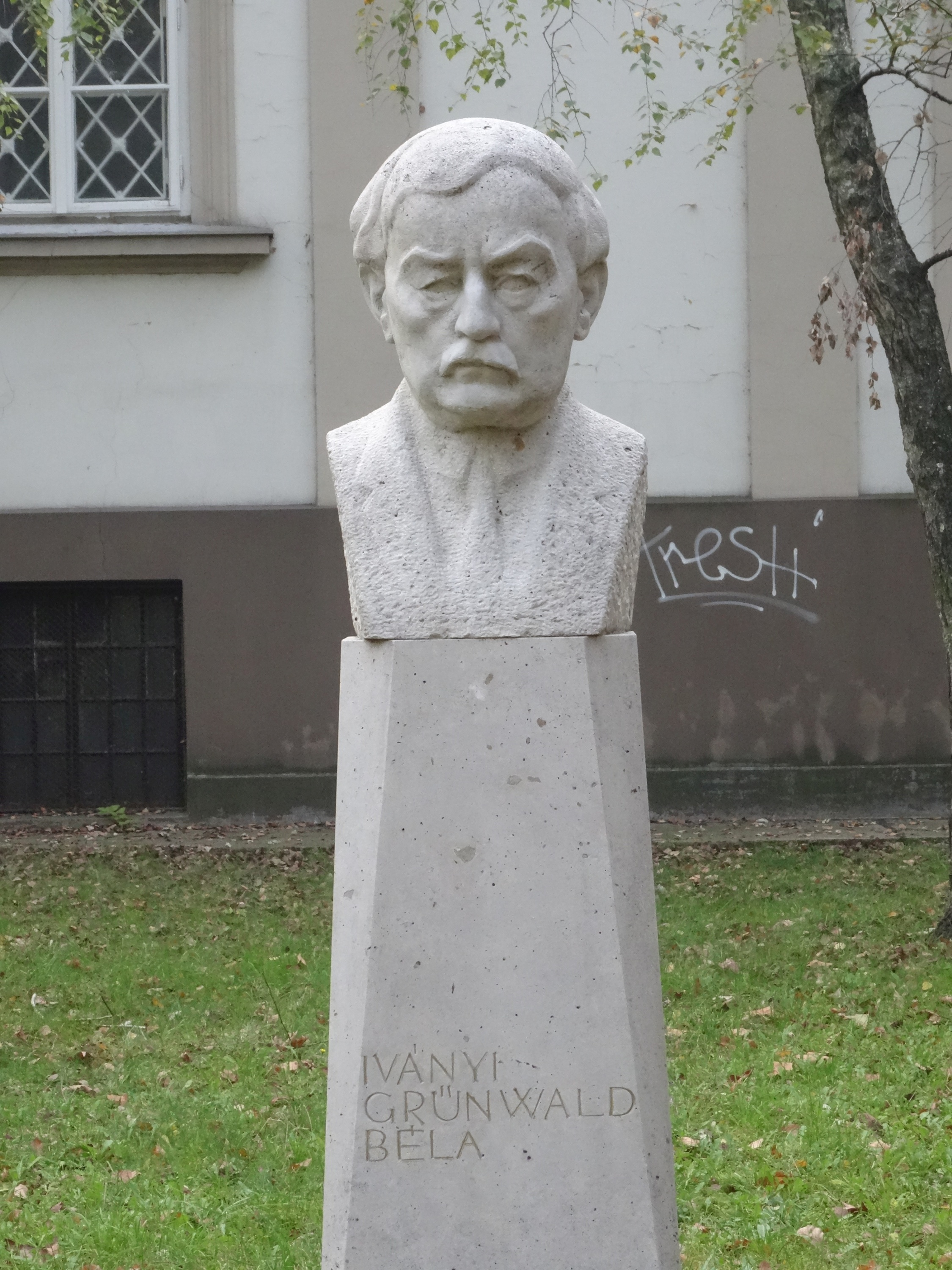 "Iványi-Grünwald Béla" bust in Kecskemét